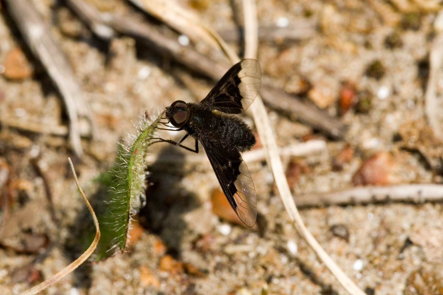 Hemipenthes morio